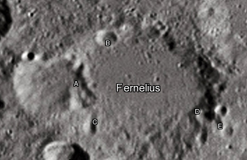 Fernelius lunar crater as seen from Earth with satellite craters labeled